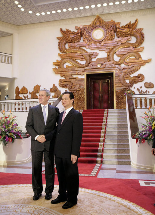 U.S. President George W. Bush stands with Prime Minister Nguyen Tan Dung at the Office of the Government Cabinet Room Friday, Nov. 17, 2006, in Hanoi after his arrival with Mrs. Laura Bush to Vietnam. White House photo by Eric Draper